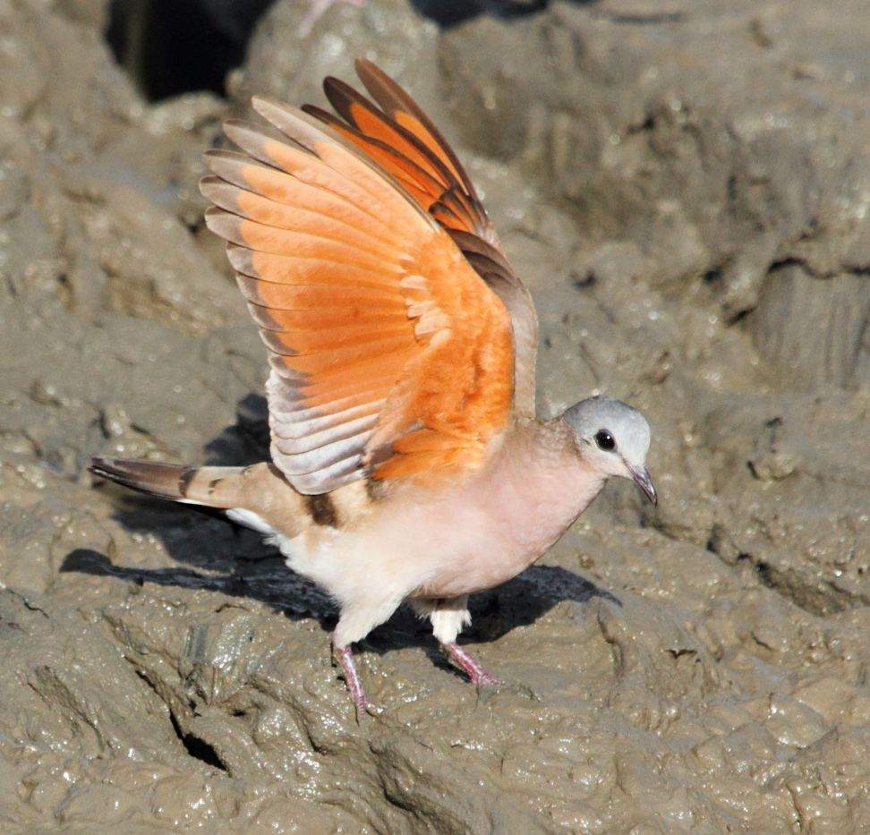 Emerald-Spotted Wood-Dove (Turtur chalcospilos) in Mkhuze Game Reserve, KwaZulu-Natal.